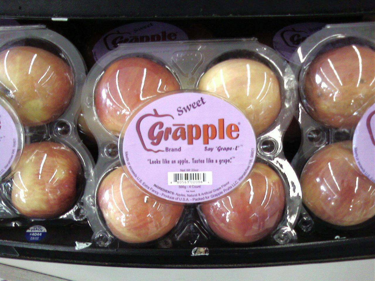 "Grāpples" in packs of four in a supermarket. "Grāpple" is a brand name for a Fuji or Gala apple that has been soaked in a chemical solution to make it taste like a Concord grape.